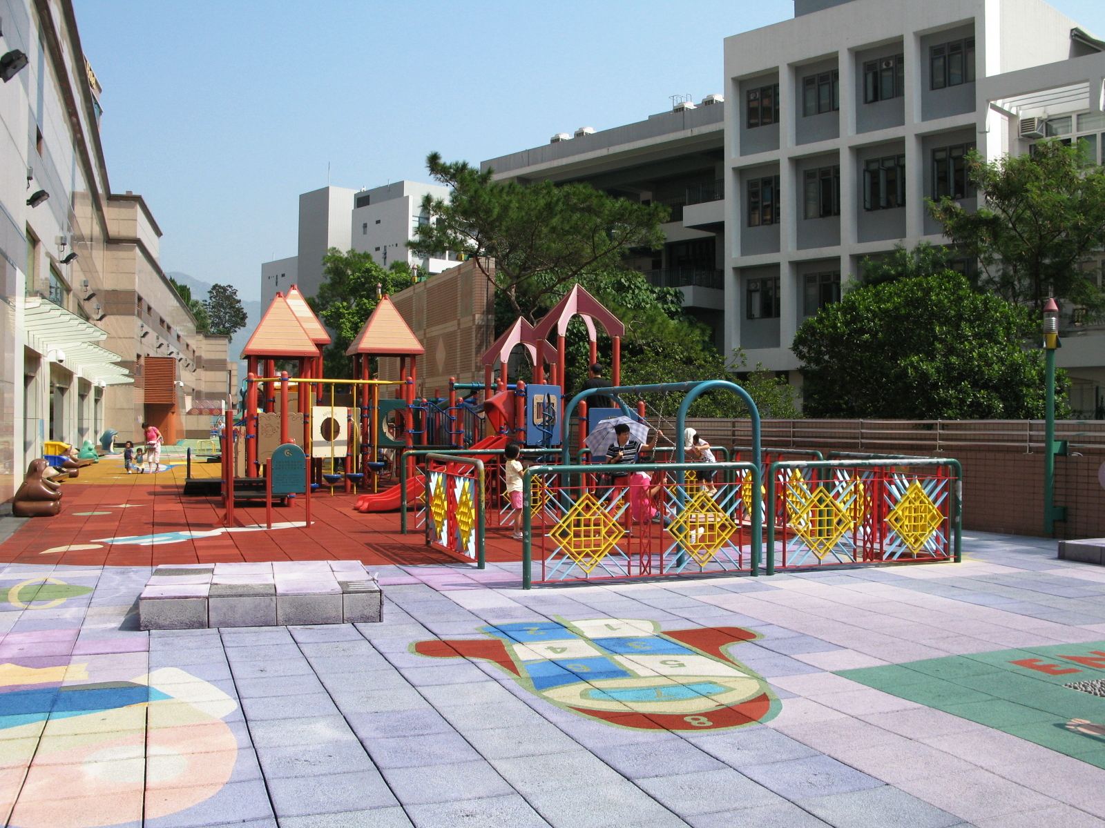 Grand Century Place Level 5 Playground 新世紀廣場